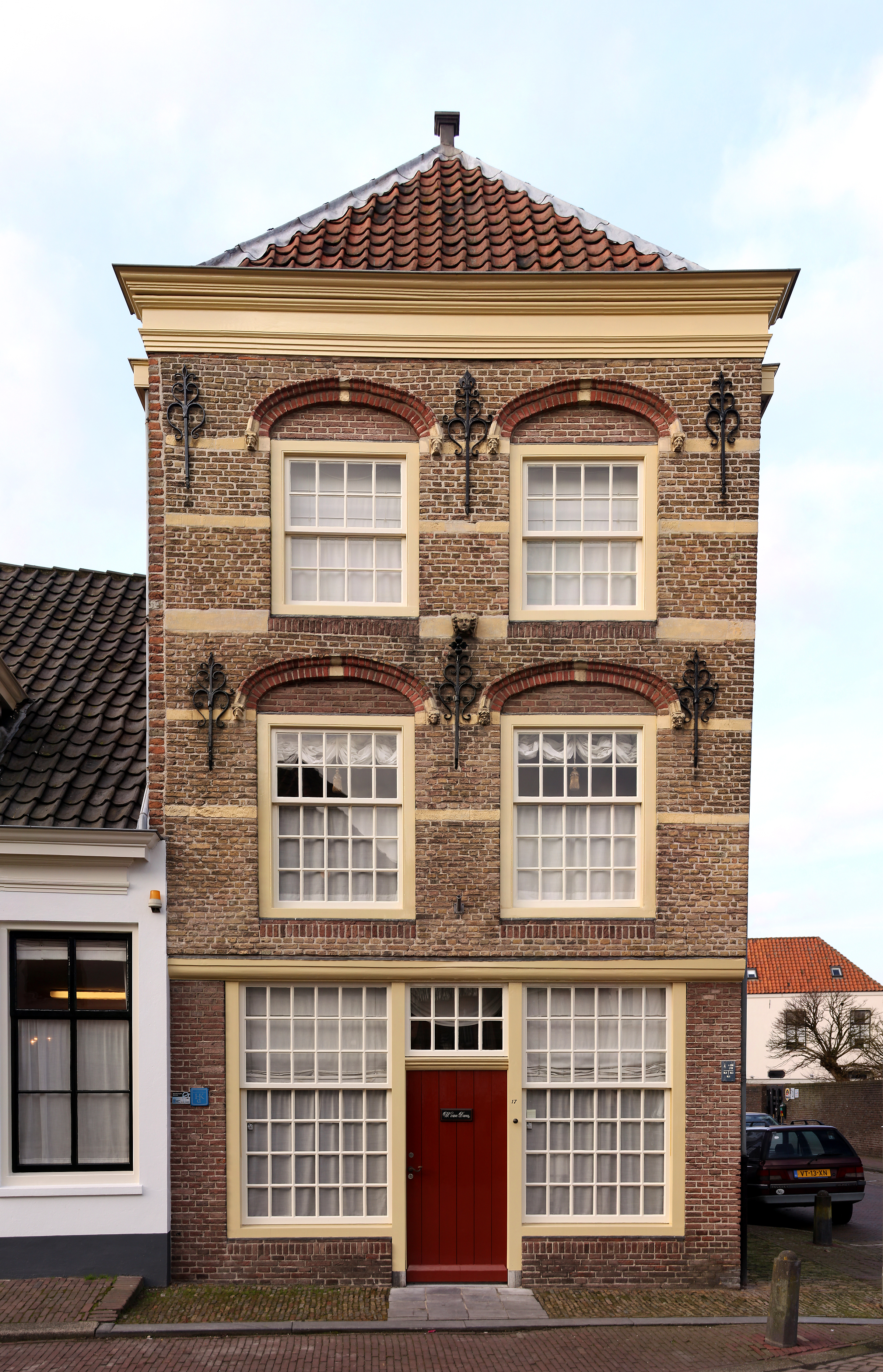 Monumental building from the early 17th century, Oenselsestaat 17, Zaltbommel, the Netherlands. Owned by the Hendrick de Keyser Association since 1964. Dutch National monument number 40243. Panorama created from 23 photos.